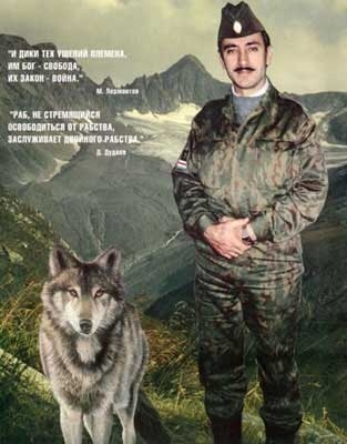 Djoxar Dudaev